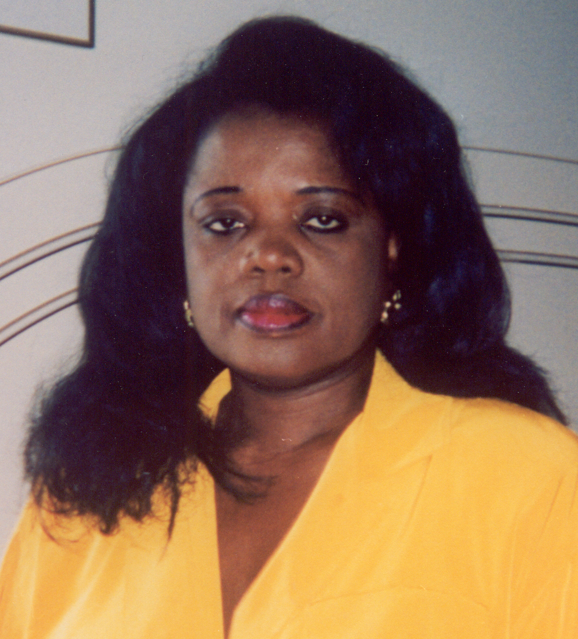 Obioma G. Nnaemeka, Chancellor's Professor of French, Women's Studies and Africana Studies, Indiana University – Purdue University Indianapolis (webpage)